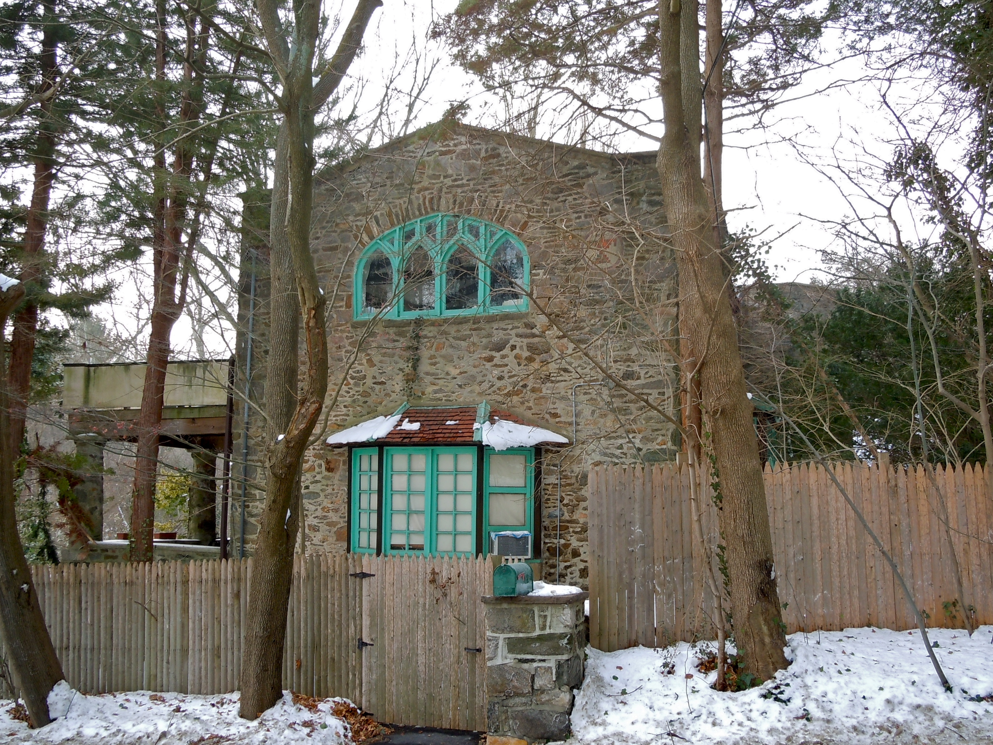 Thunderbird Lodge, on the NRHP since August 18, 1989. At 45 Rose Valley Road, in Rose Valley, Pennsylvania. Also a contributing building in the Rose Valley Historic District, on the NRHP since 2010. Designed by Will Price.